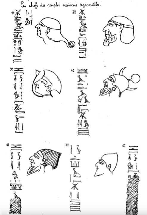 Champollion's notes of the peoples named on the base of the Fortified East Gate at Medinet Habu